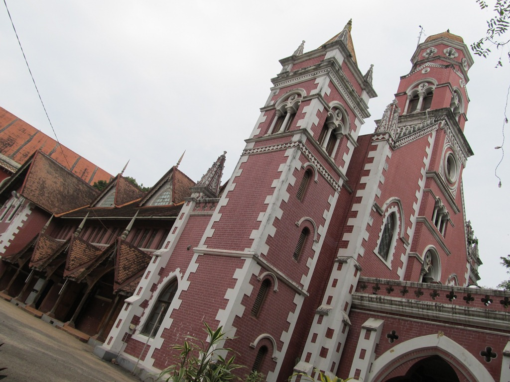 Built to commemorate the golden jubilee of the coronation of Queen Victoria in 1896, the VJT Hall was inaugurated by Sree Moolam Thirunal Rama Varma on January 25, 1896, the hall has witnessed many historical events. Perhaps the most preferred venue for public functions in the city, this monument stands tall as a proud remnant of the colonial era.